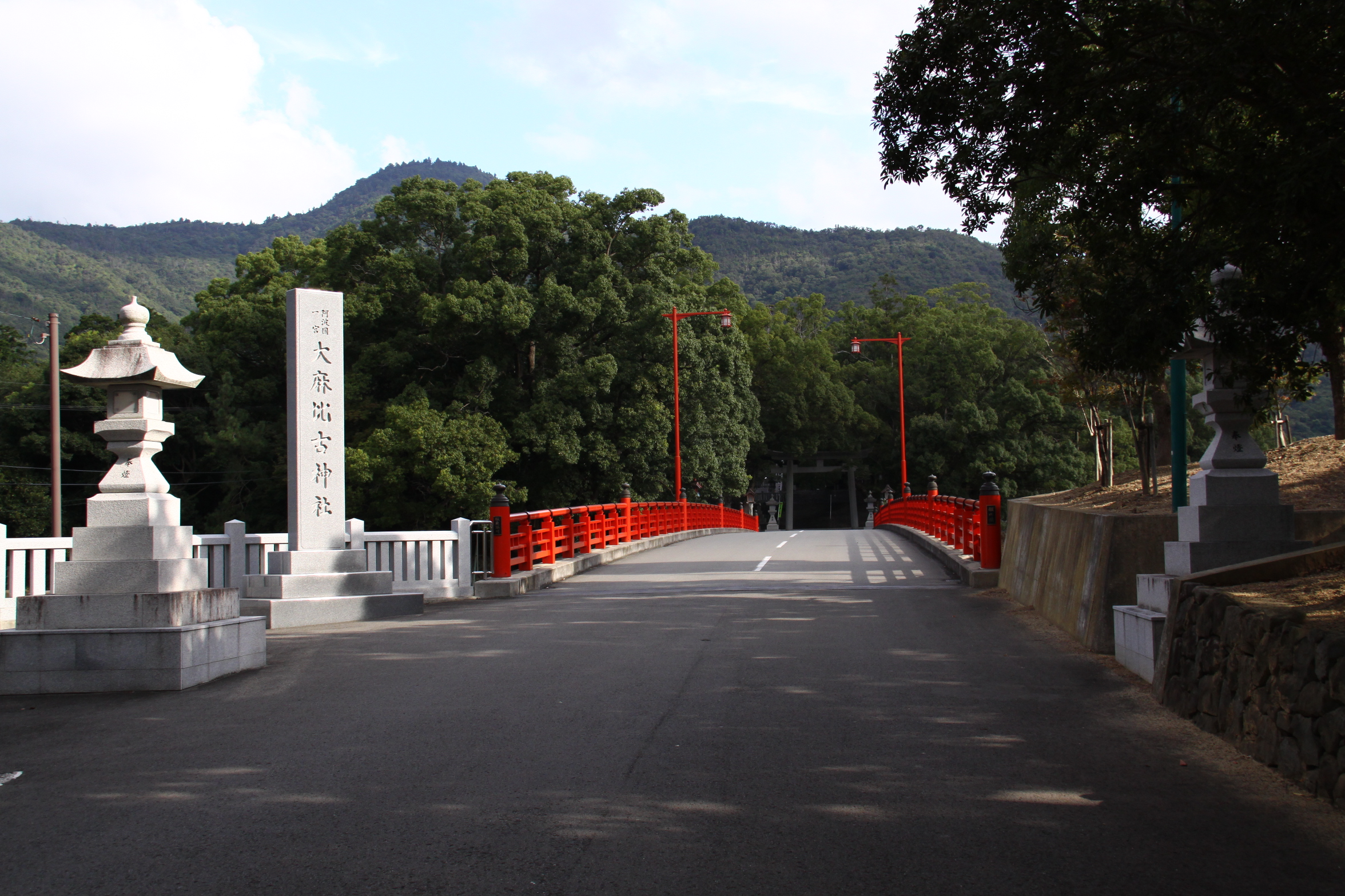 Ōasahiko-jinja 2nd Gate